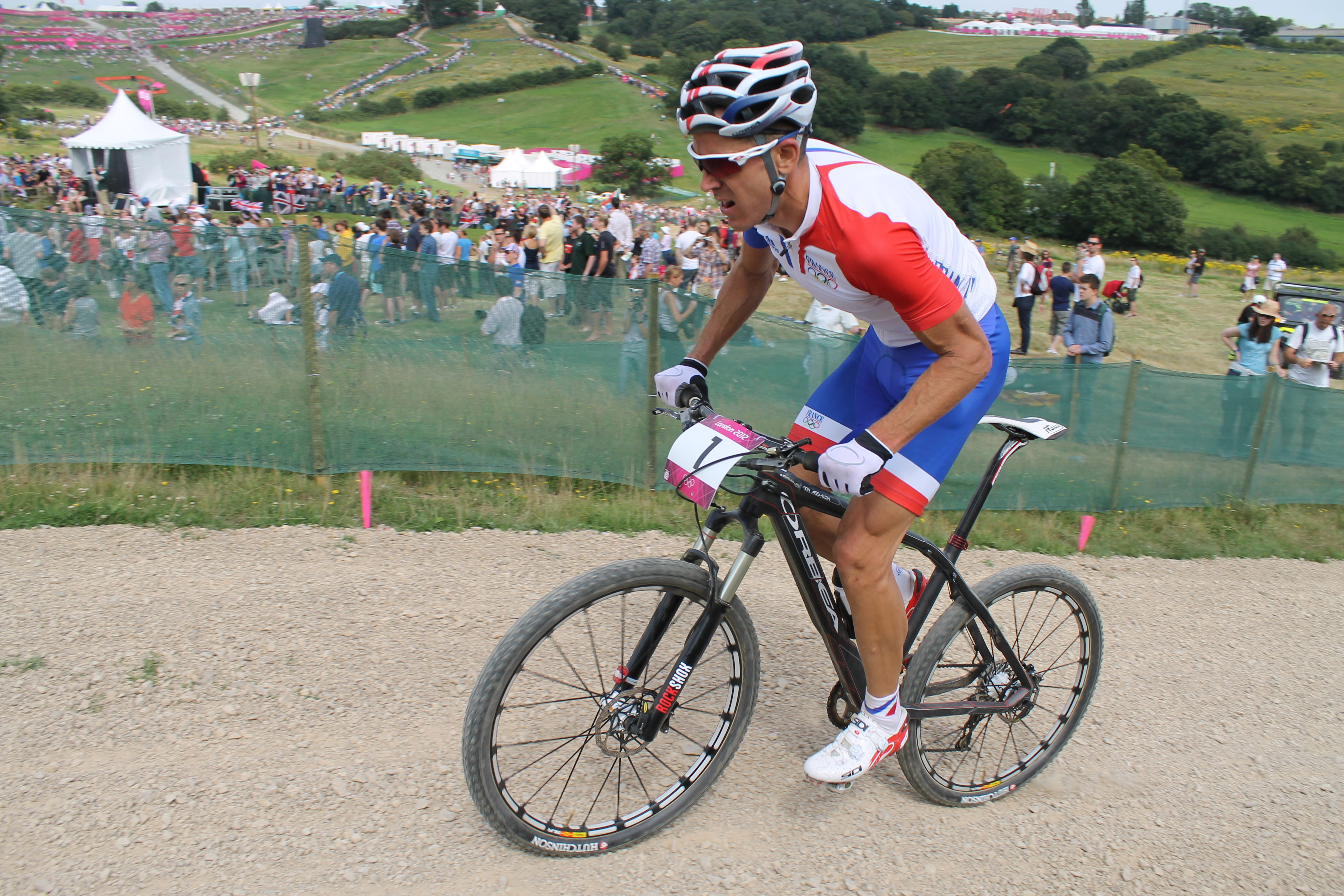 Cycling at the 2012 Summer Olympics – Men's cross-country Julien Absalon (1) (FRA) IMG_4050